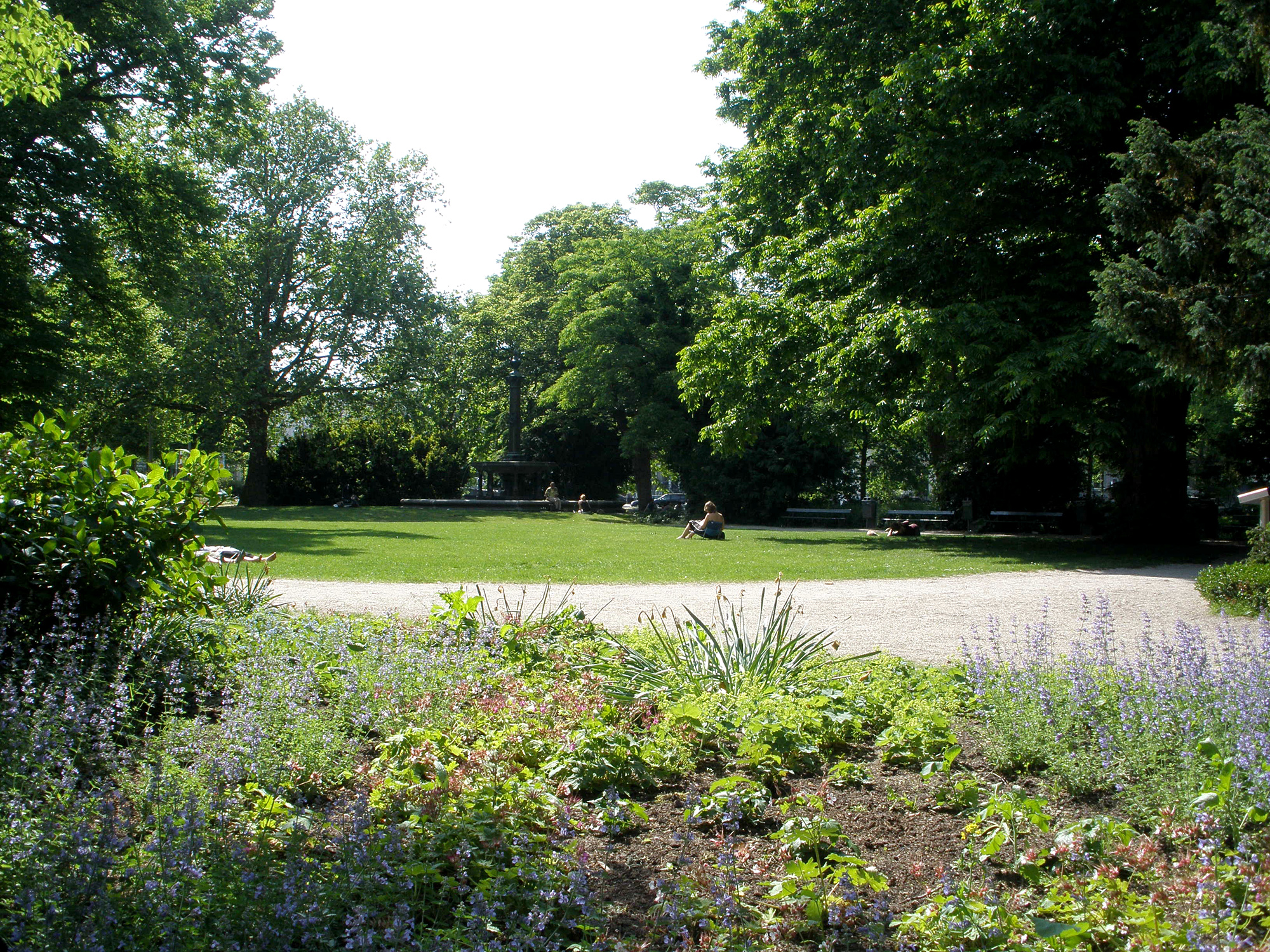 The Wertheimpark in Amsterdam